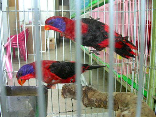 Black-winged Lory (also known as Biak Red Lory); two in a cage.